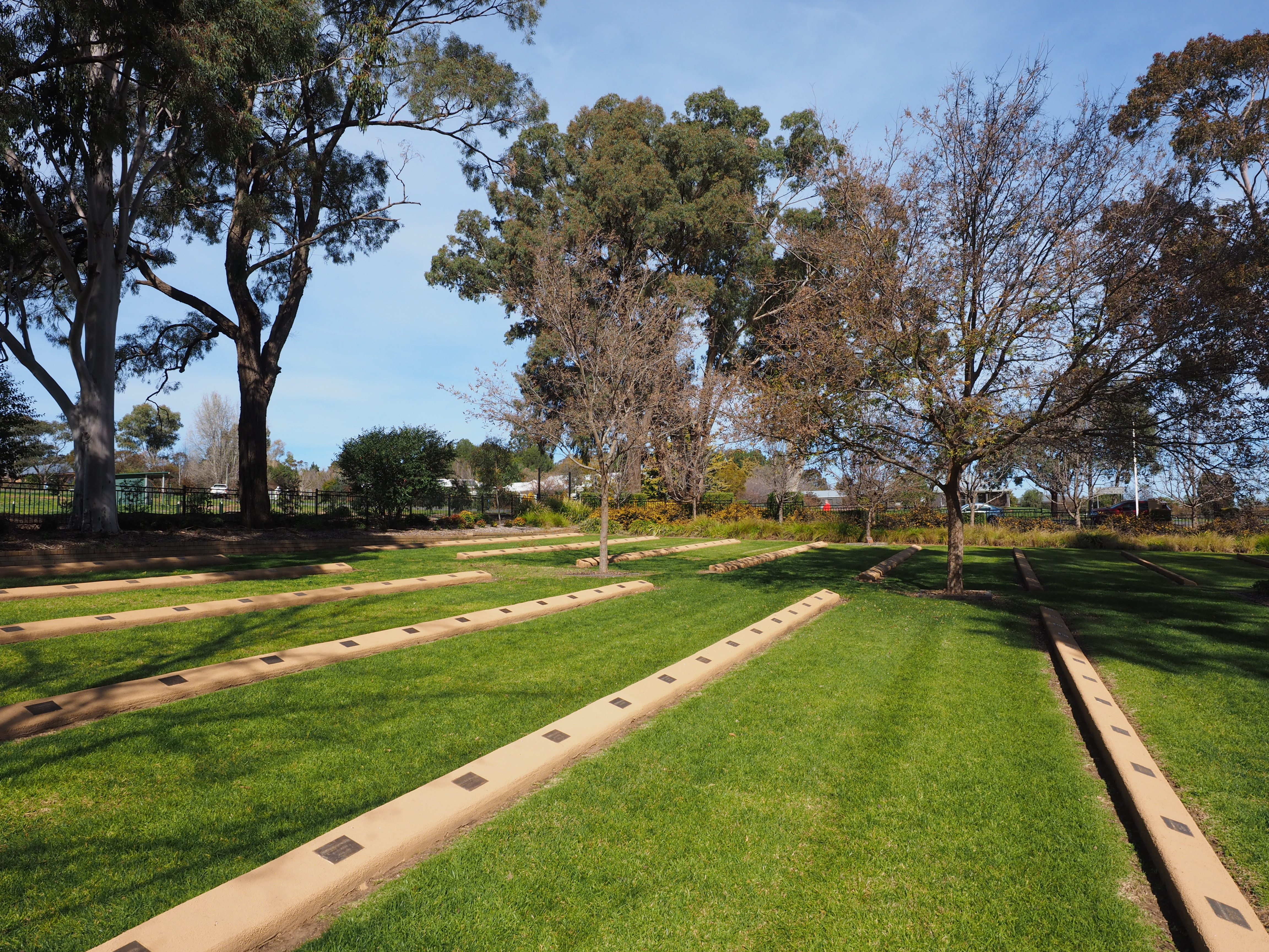 Some of the graves at the Japanese War Cemetery in Cowra. Many of those on the side nearest the camera are for people who died in the Cowra POW camp breakout in 1944.